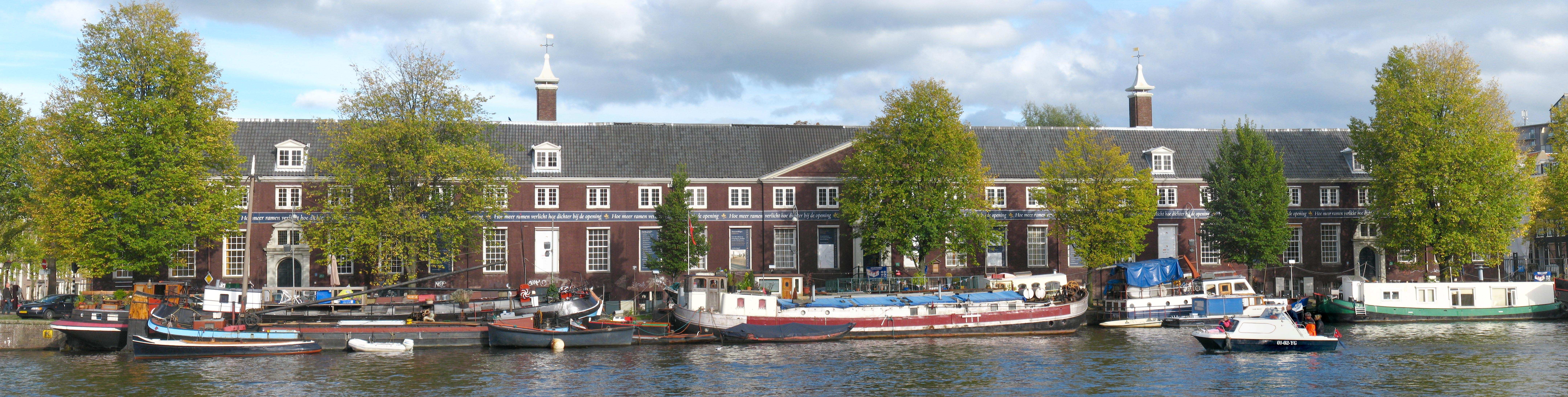 Hermitage Amsterdam or Hermitage on the Amstel is a dependency of the Hermitage Museum of Saint Petersburg on the Amstel river in Amsterdam. The dependency is located at the former Amstelhof, a classical style building from 1681.